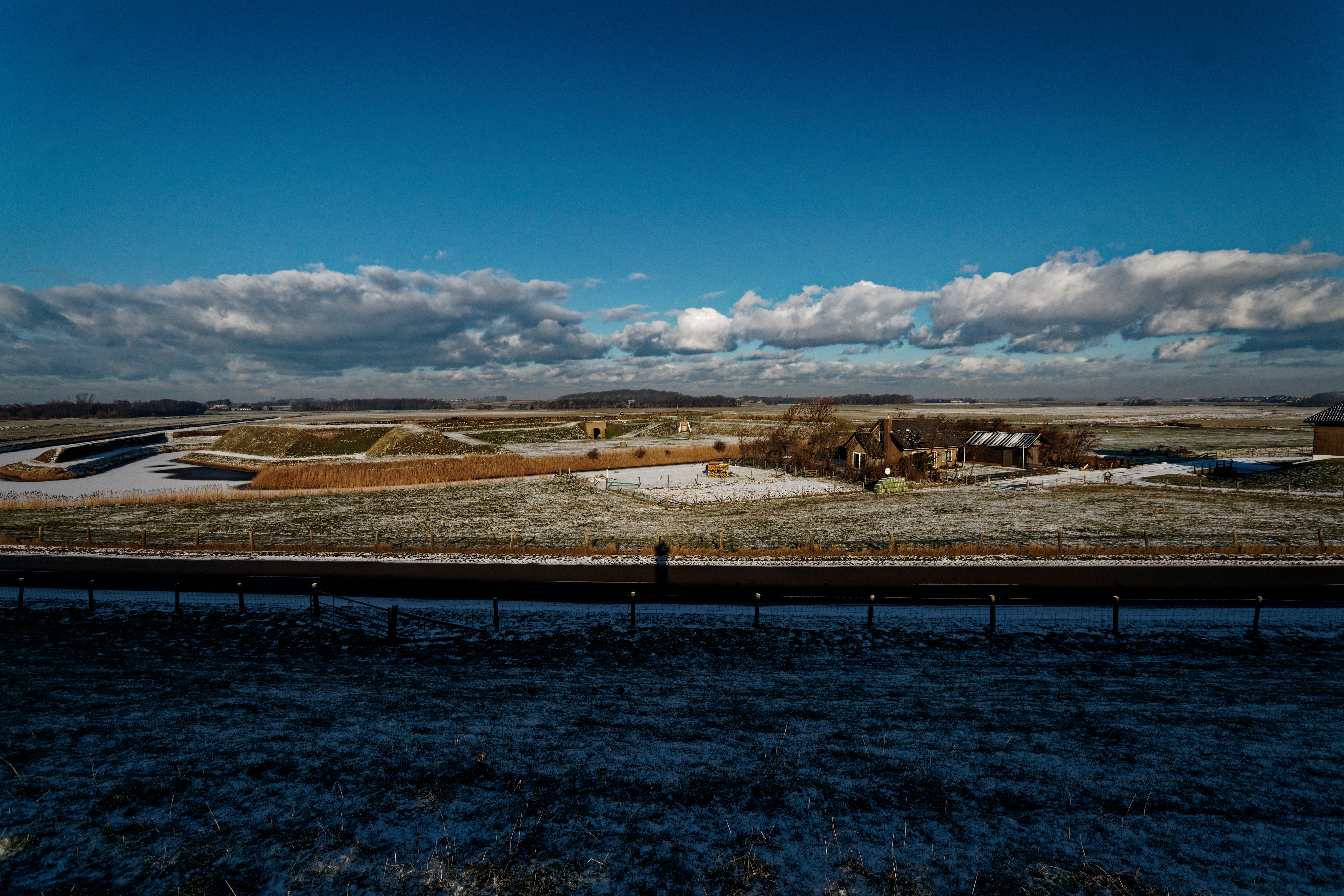 Texel - Waddenzeedijk - View NNW on V.O.C. Fortress 'De Schans' 1574, Enlarged in 1811 - In the Back: Hoge Berg, 15 m above Sea level